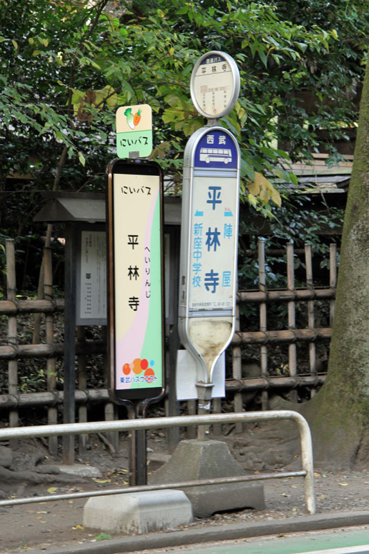 Bus stop of Niiza City Community Bus at Heirinji, Niiza, Saitama, Japan